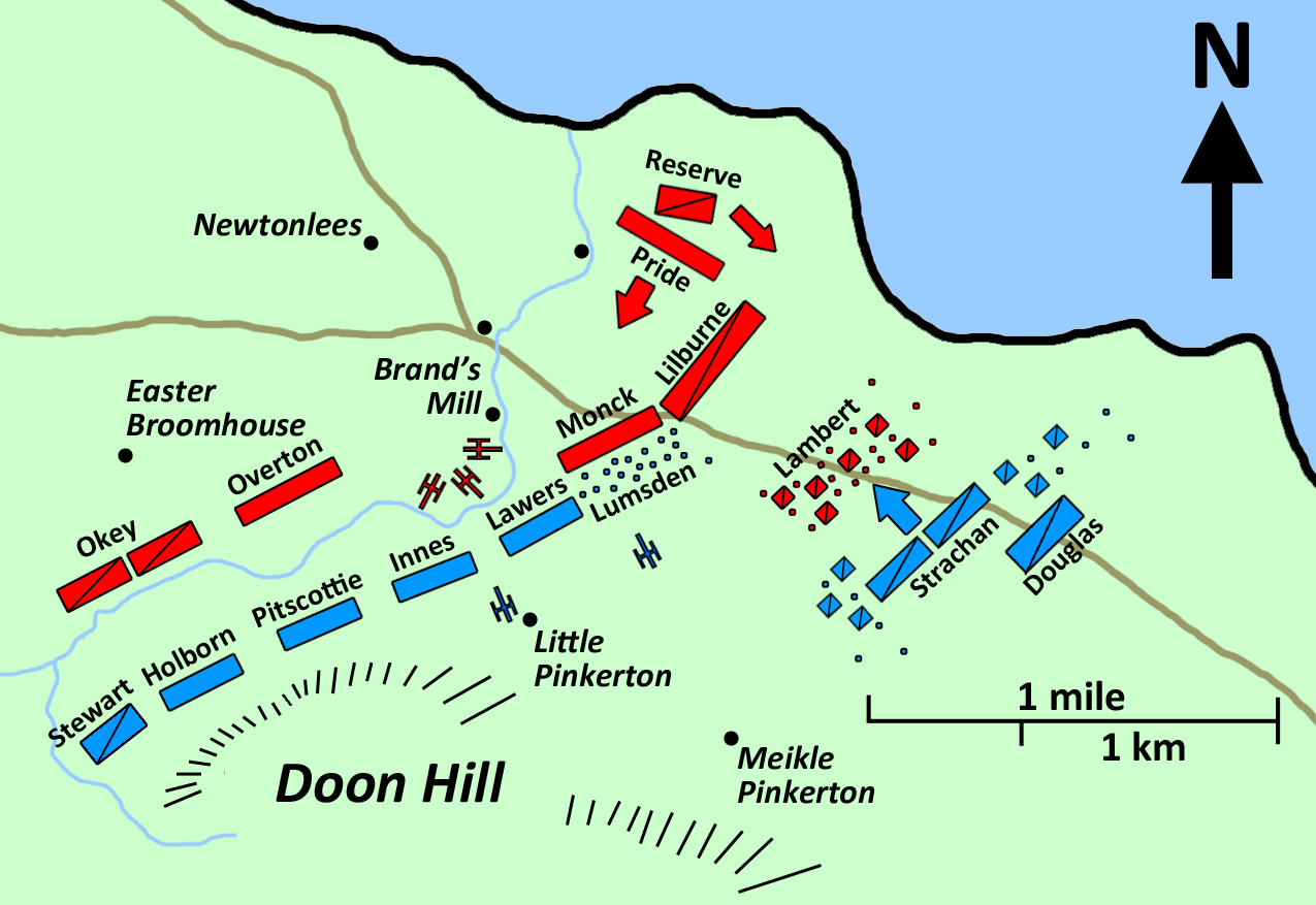 The Battle of Dunbar took place during the War of the Three Kingdoms, in what is commonly referred to as the "Third English Civil War". This map depicts the general layout of the two armies at 0630. The Scottish army is labelled in blue, while the English army is in red.